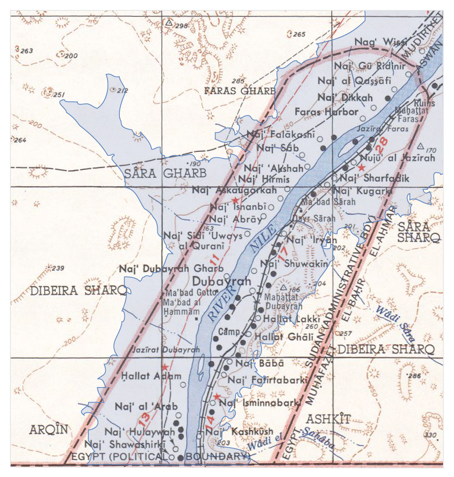 Flooding areas of the Lake Nasser in the Wadi Halfa Salient